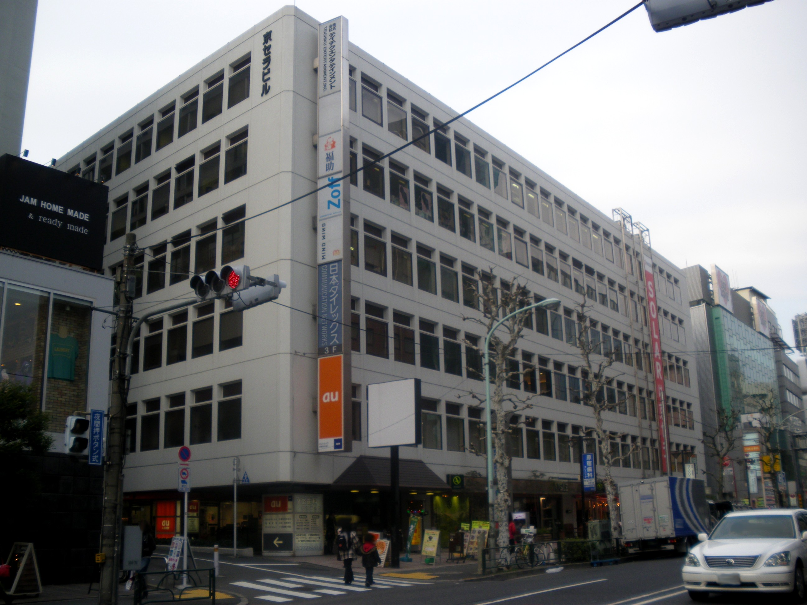 A photo of Kyosera Harajuku Building,Jingumae,Shibuya-ku,Tokyo,Japan.